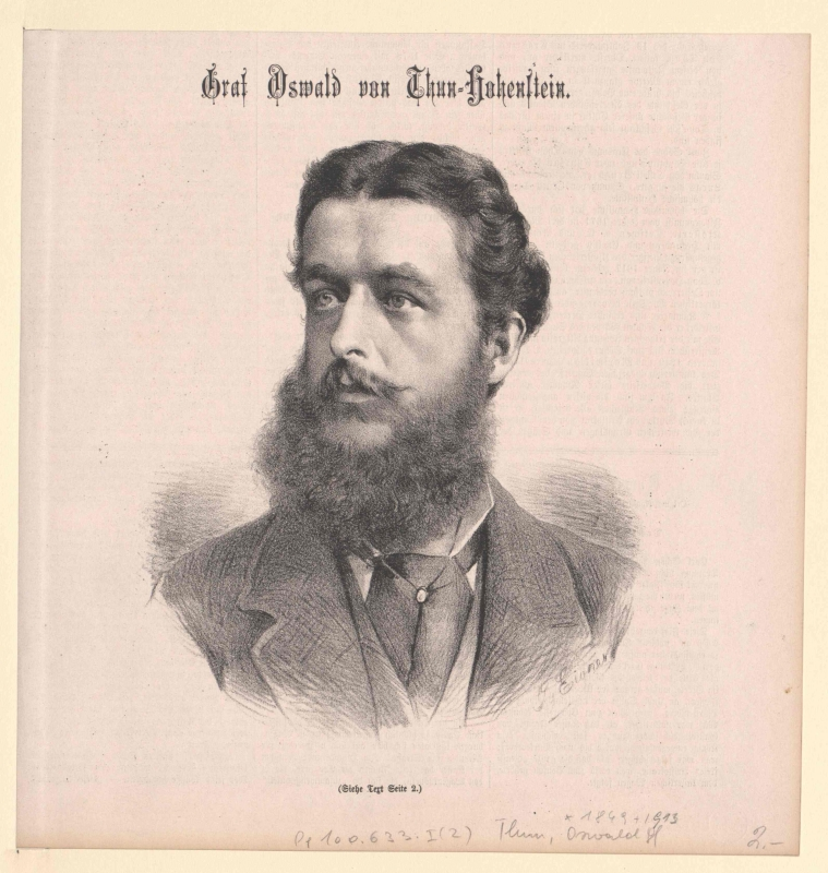 Oswald von Thun und Hohenstein (1849–1913), Austrian politician